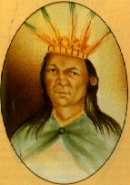 Portrait of QUEMUENCHATOCHA, an indean ruler of muisca.